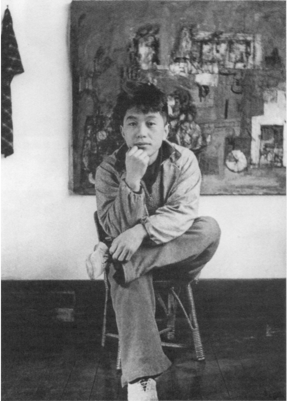 A photograph of Matsumoto Shunsuke in his atelier